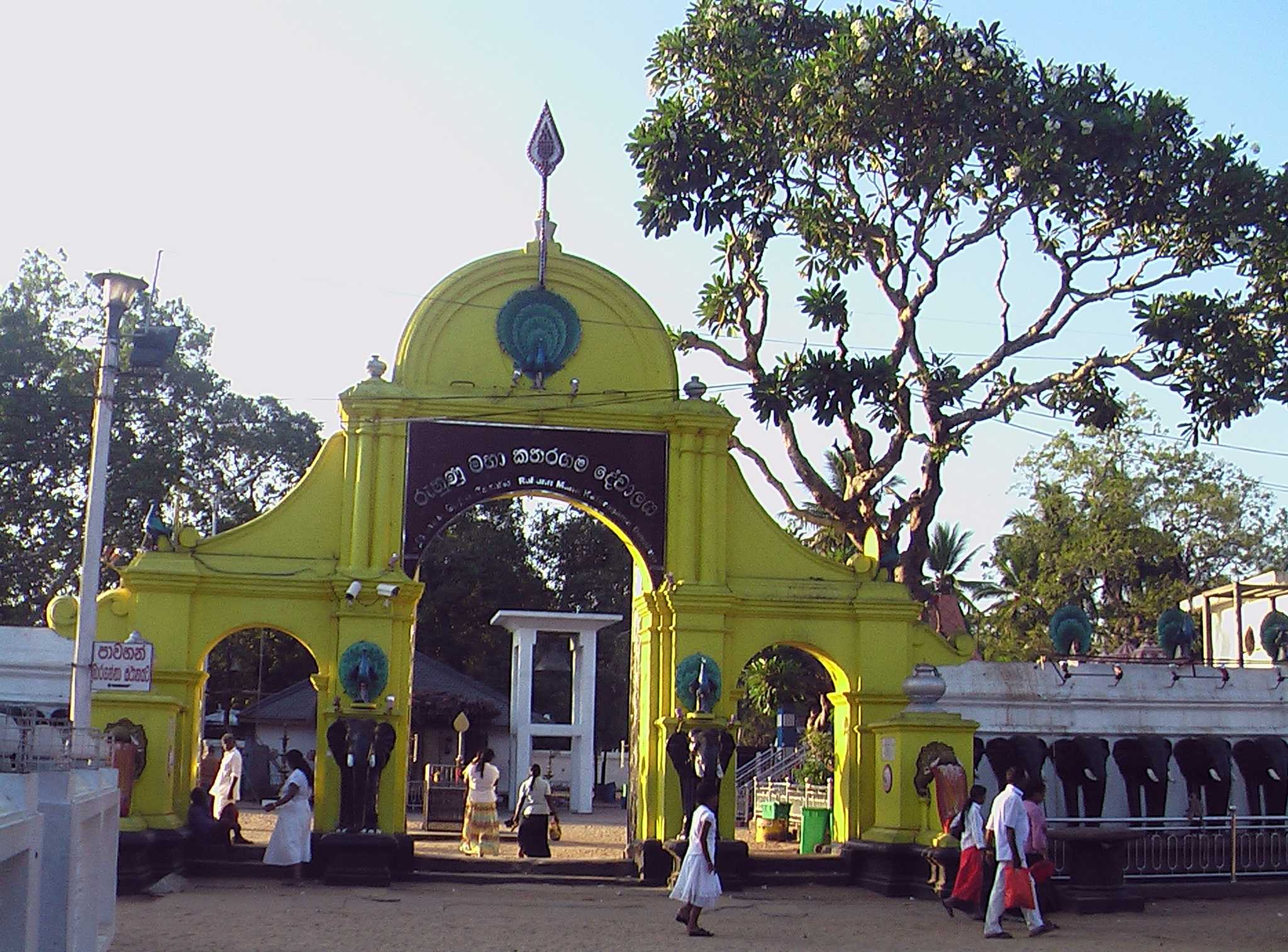 Main entrance of the inner complex of Kataragama temple, Sri Lanka.